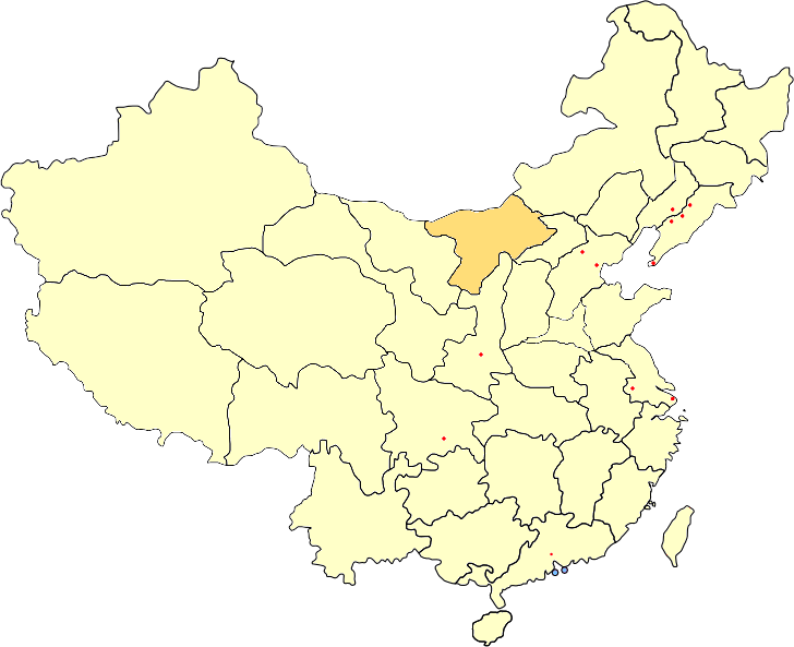 Suiyuan province PRC